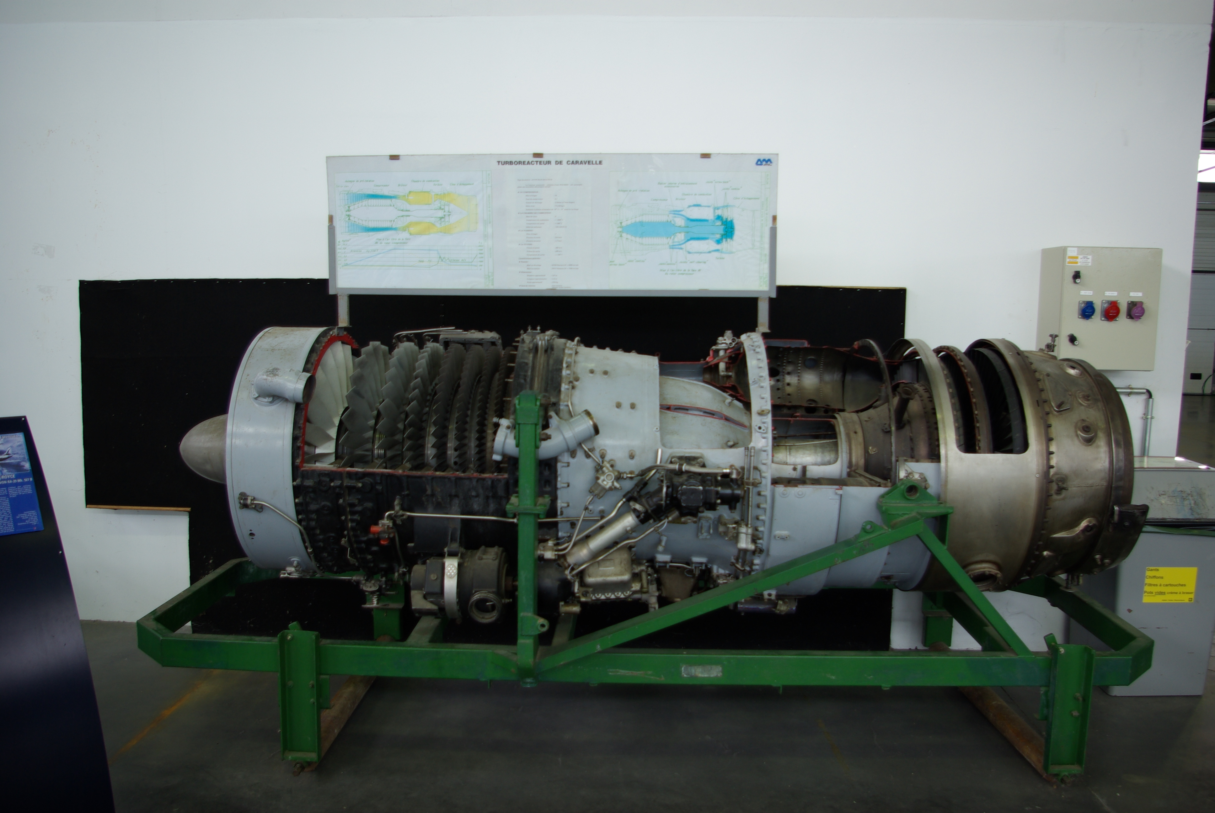 Cutaway of a Rolls Royce Avon equiping a Caravelle.